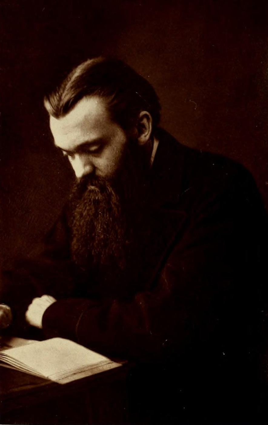 William Kingdon Clifford